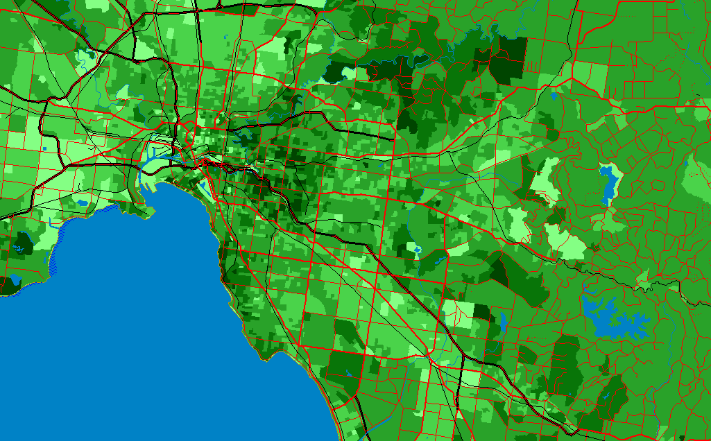 Melbourne - darker areas indicate higher levels of household-income.